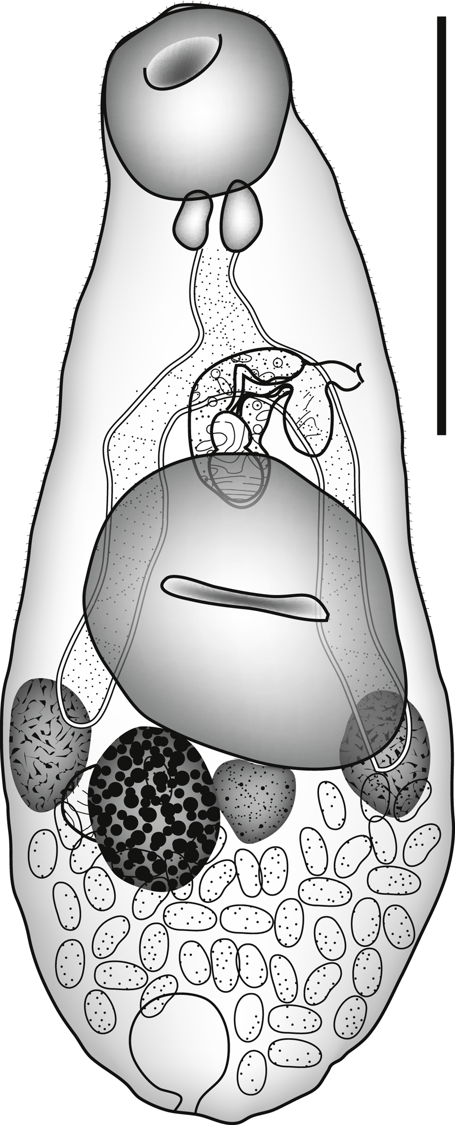 Figure 3: Zoogonoides viviparus (Olsson, 1868). Ventral view. Scale bar 200 µm.